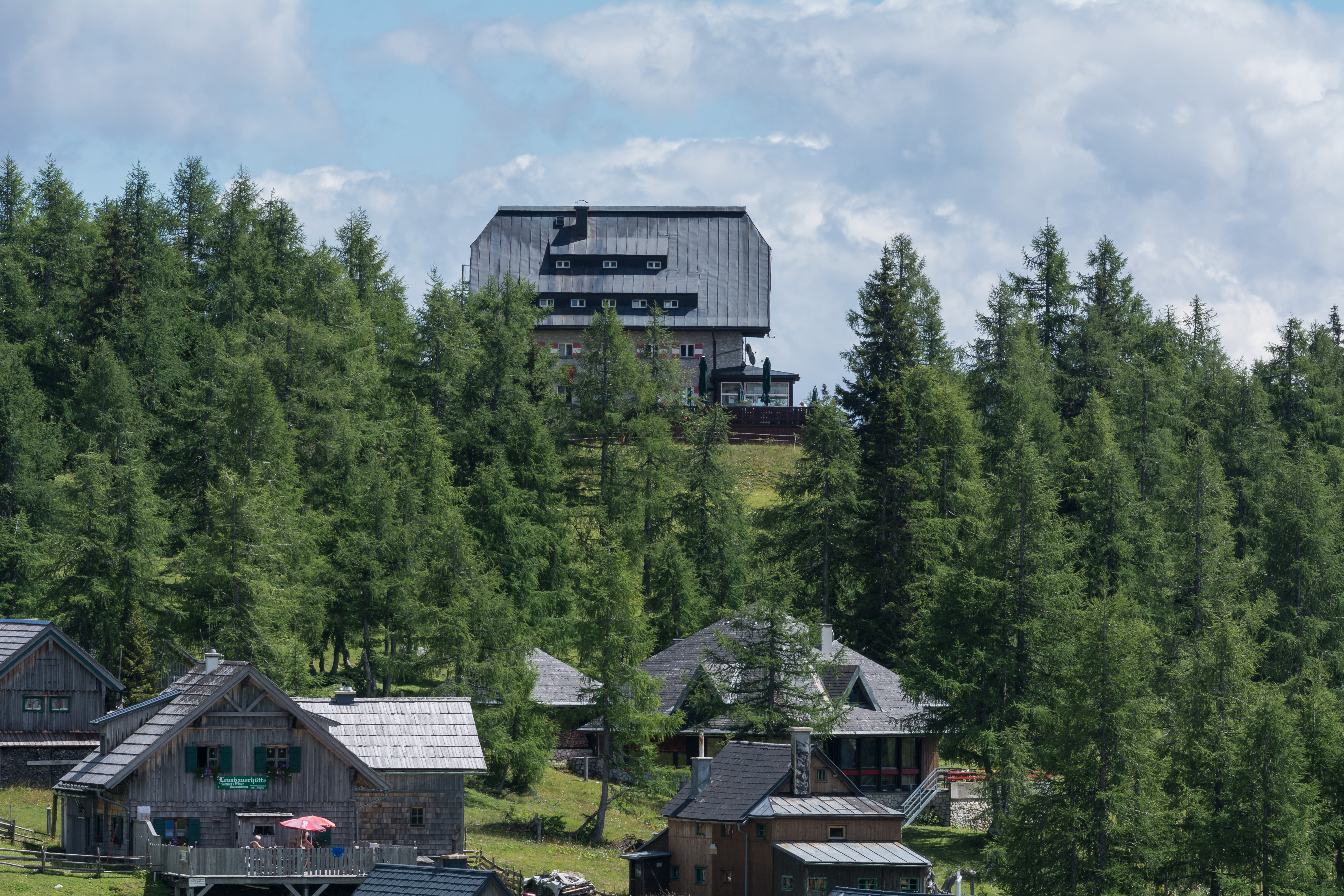 The alpine hut Linzer Tauplitz-Haus at the alpine pasture Tauplitzalm in Styria / Austria was erected in 1953/54.